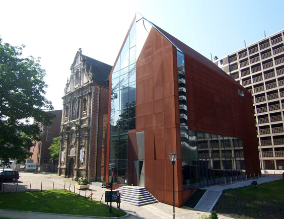 Les Brigittines Theatre, Brussels, Belgium